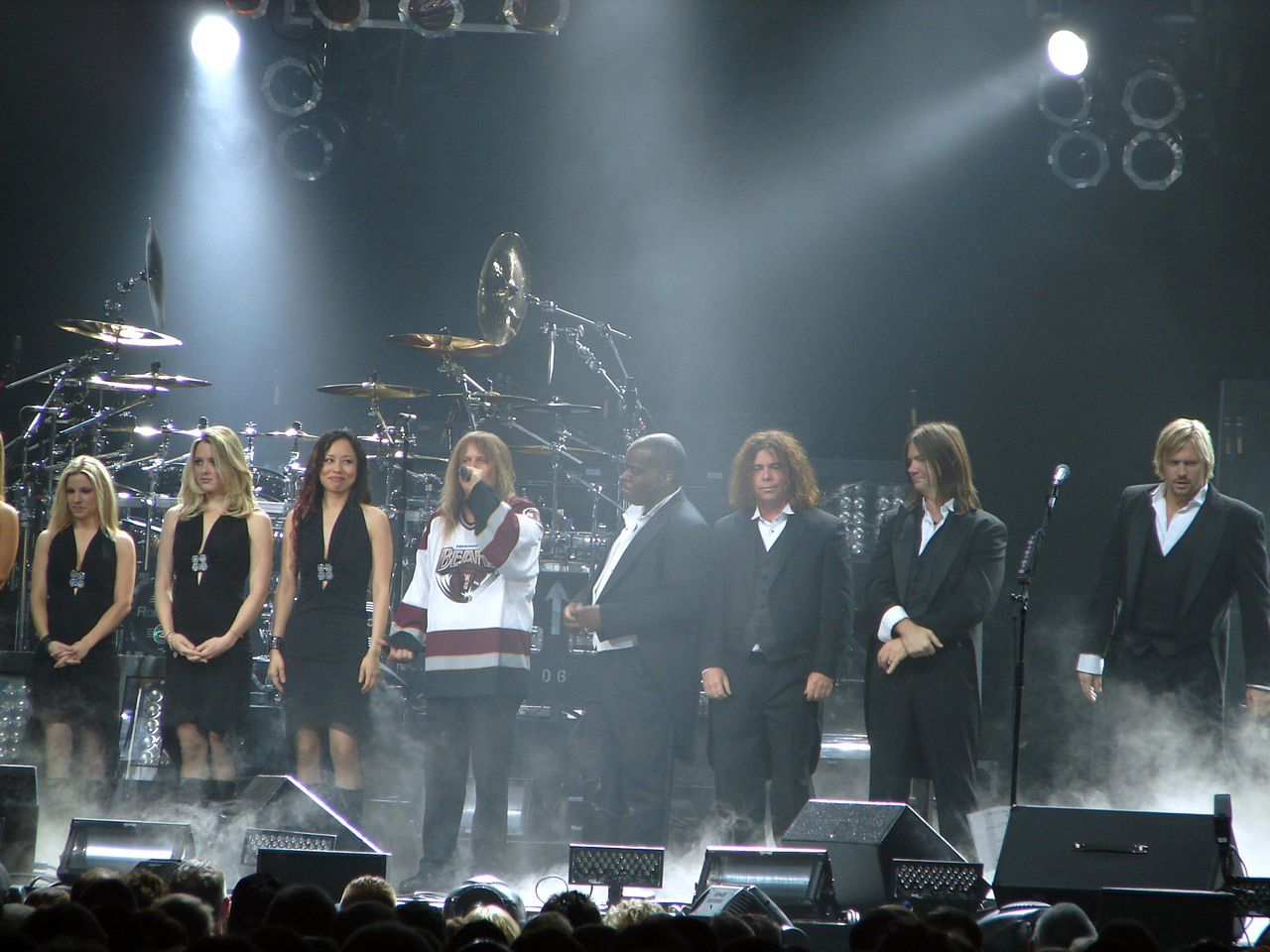 Shots from the Hershey GIANT Center performance of the Trans-Siberian Orchestra, November 2006. Hershey, Pennsylvania